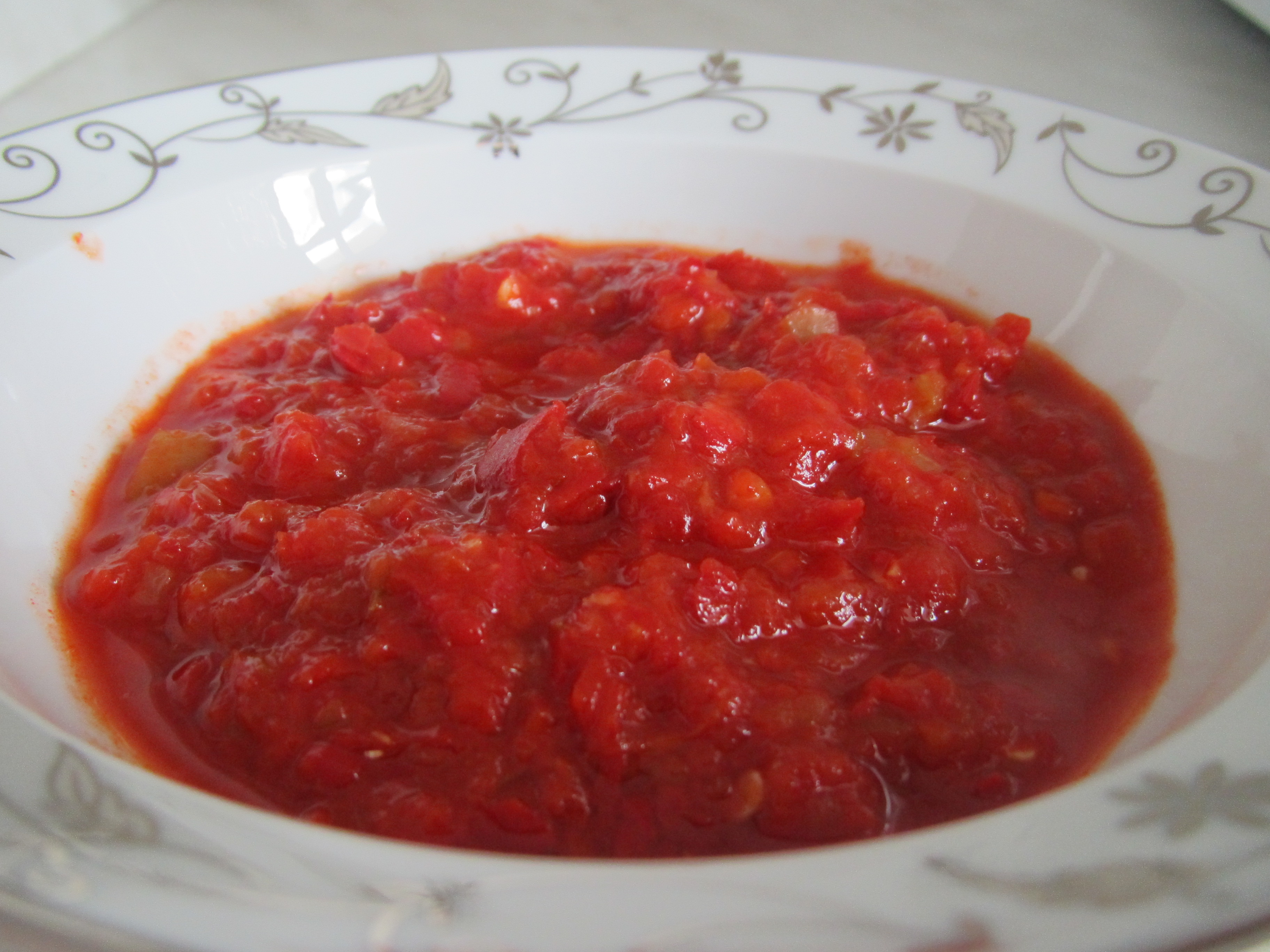 Sauces